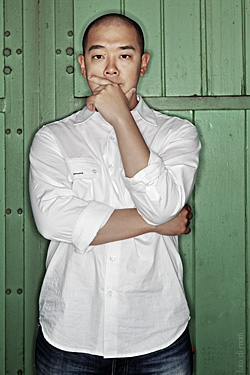 Portrait of Jeff Ng, also known as Jeff Staple, photographed by Matti Hillig. The photo was taken at the BreadandButter fashion trade show in Berlin on July 8, 2009. Jeff Staple founded Staple Design, a visual communications agency based in New York City in 1997. High-resolution versions of this and more photos are available. Please contact me